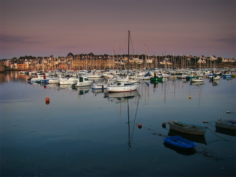 Concarneau, Finistère, Bretagne, France. The yachting harbour.